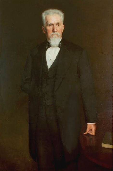 Portrait of Virginia Governor Frederick W.M. Holliday